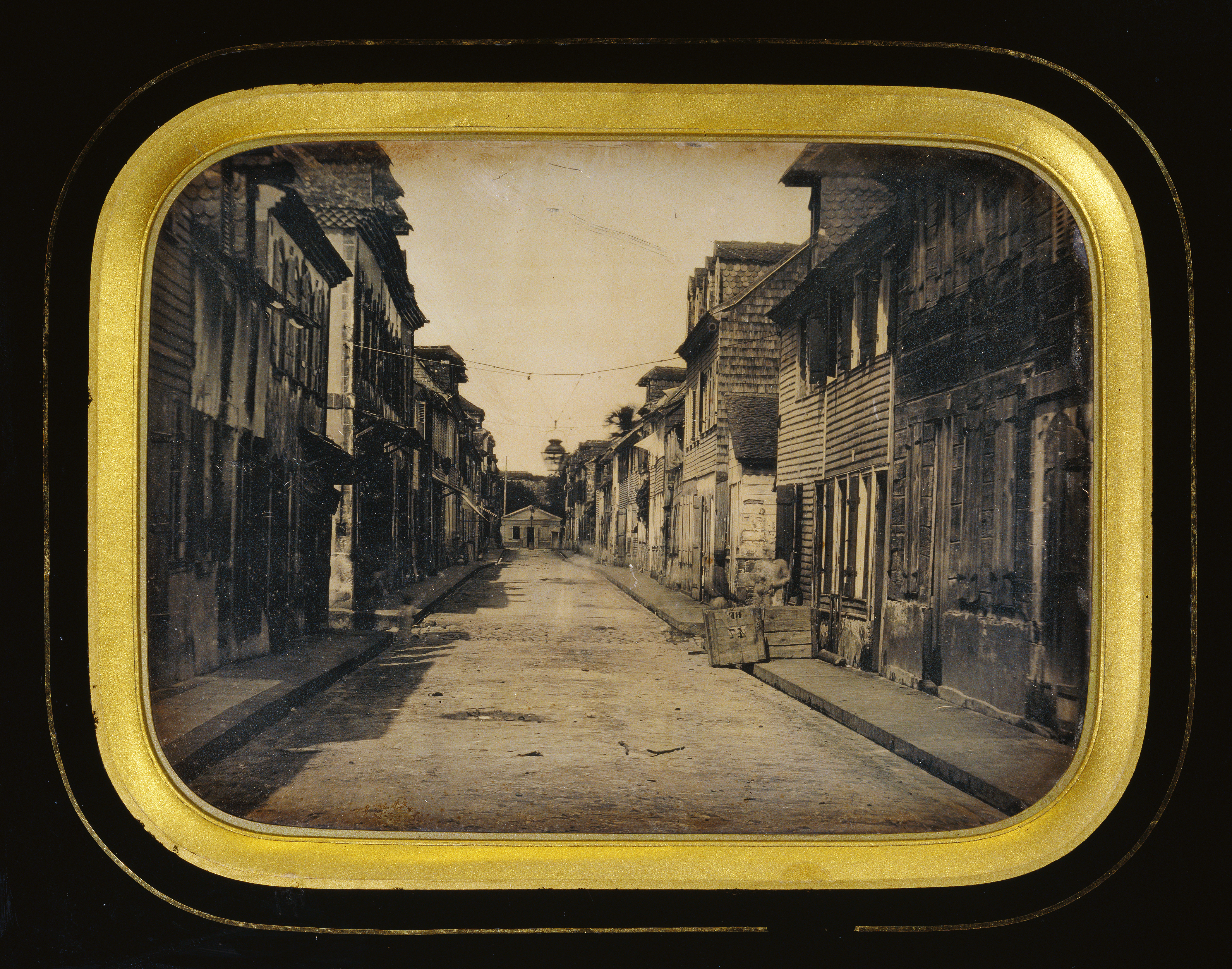 Unknown maker, France.- Daguerreotype, Street in Saint Pierre, Martinique, 1848, Getty Museum